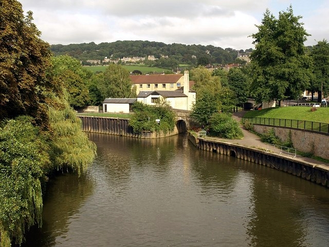 Start of Kennet and Avon Canal. Another view of the point shown in 481418 where the canal leaves the River Avon. Seen from Widcombe footbridge.